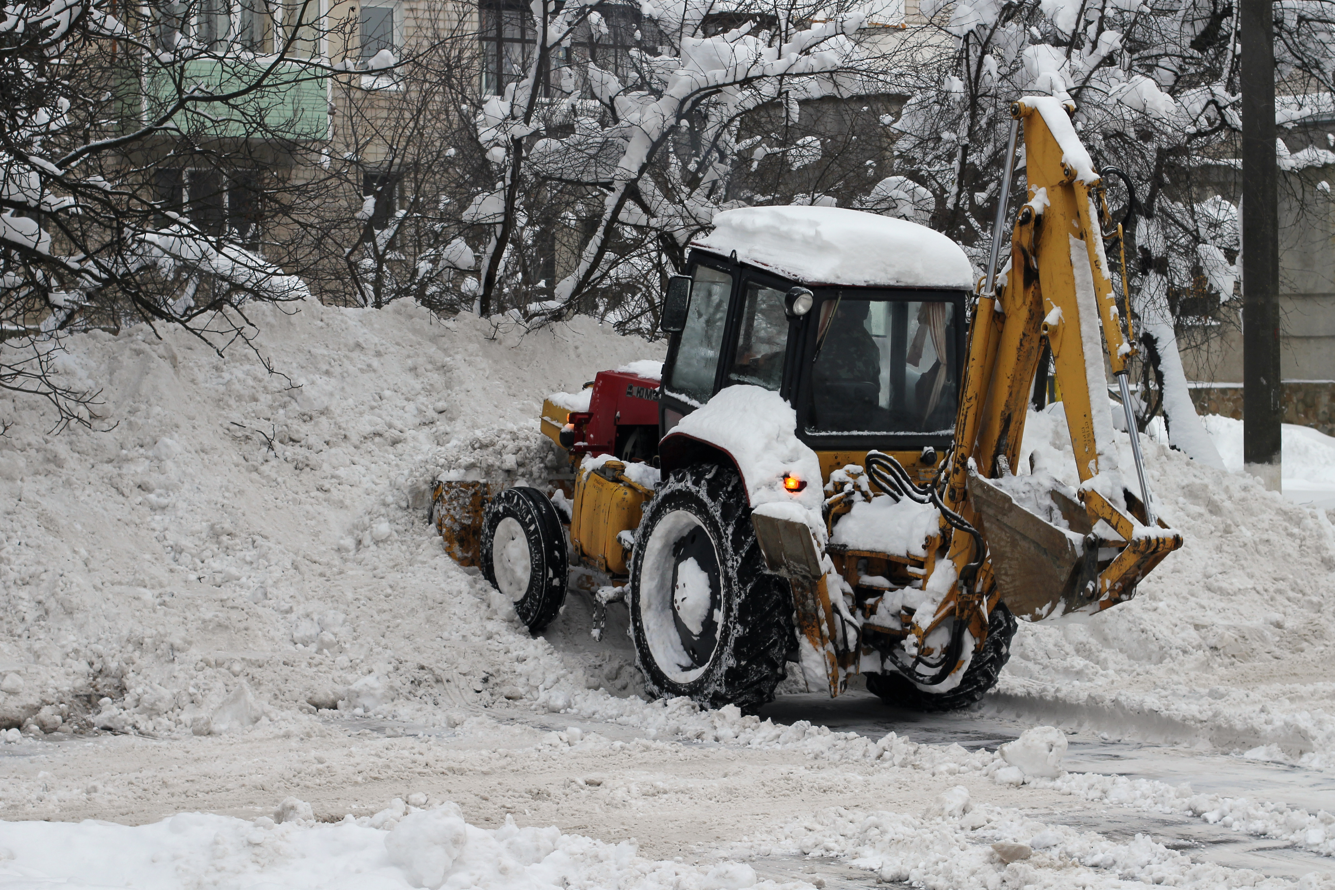 Snow removal in Vinnitsa, Ukraine. YuMZ-6 AKM 40 tractor.